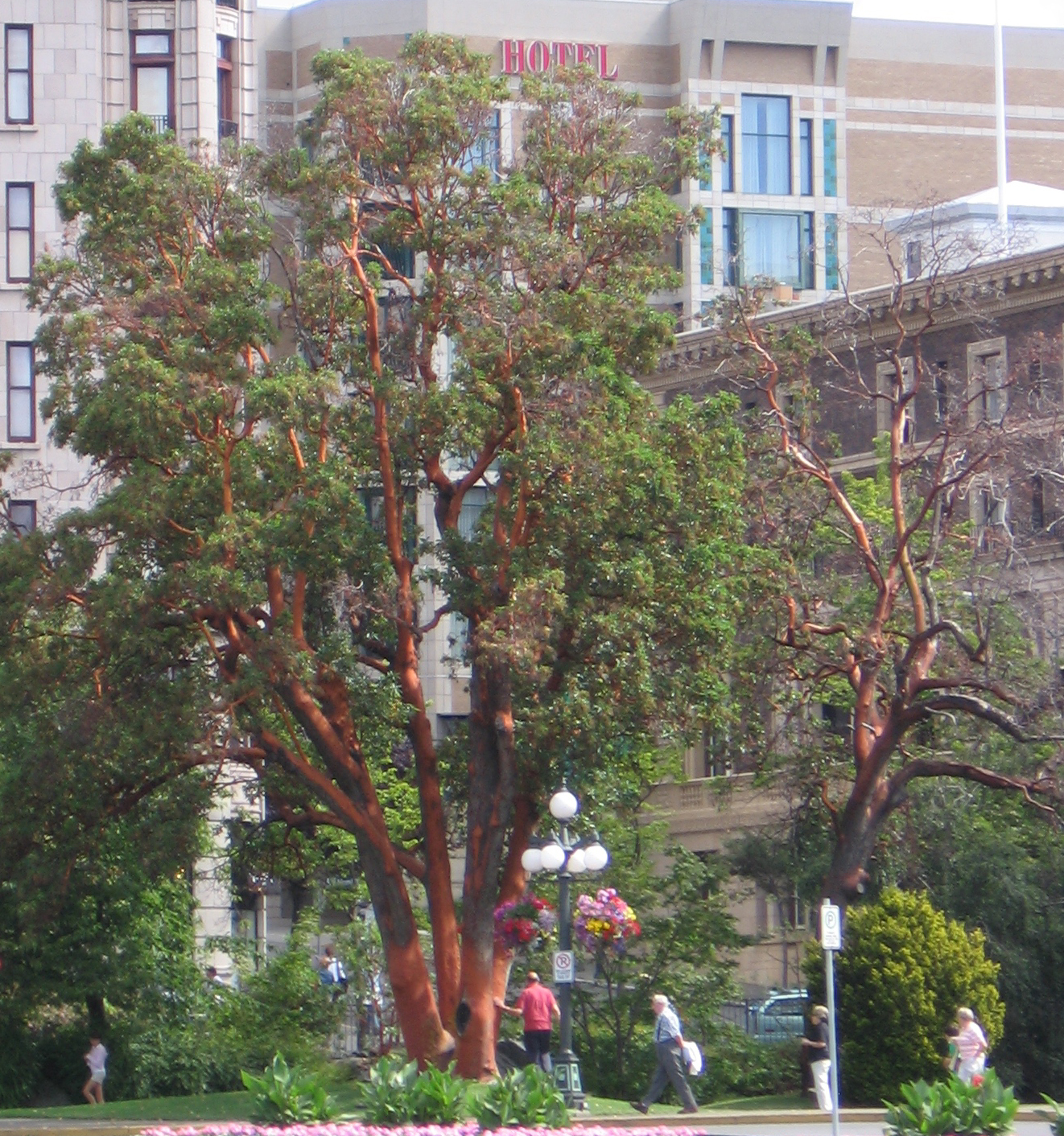 Taken morning of July 14th, 2006 in Victoria, BC, Canada.